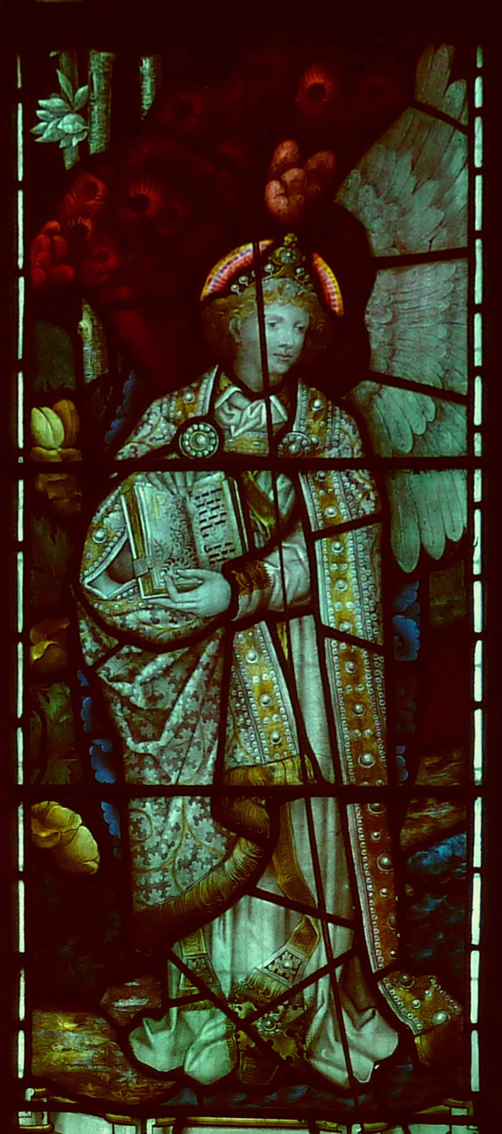 St Michael and All Angels Church, Beckwithshaw, North Yorkshire, England. Close-up of left light of stained glass window, 1892. "The first light (left, shown above) of the north-west window portrays the angel with his right foot on the sea and the left on the earth. In his hand is a little book containing the message he was about to deliver. The second light (right, not shown here) depicts the angel with the key of the Bottomless Pit in one hand and a great chain in the other. Laid at his feet is the Dragon whom he has subdued and whom he is about to cast into the Bottomless Pit." - Quotation from Pannal Parish Magazine, 1892.